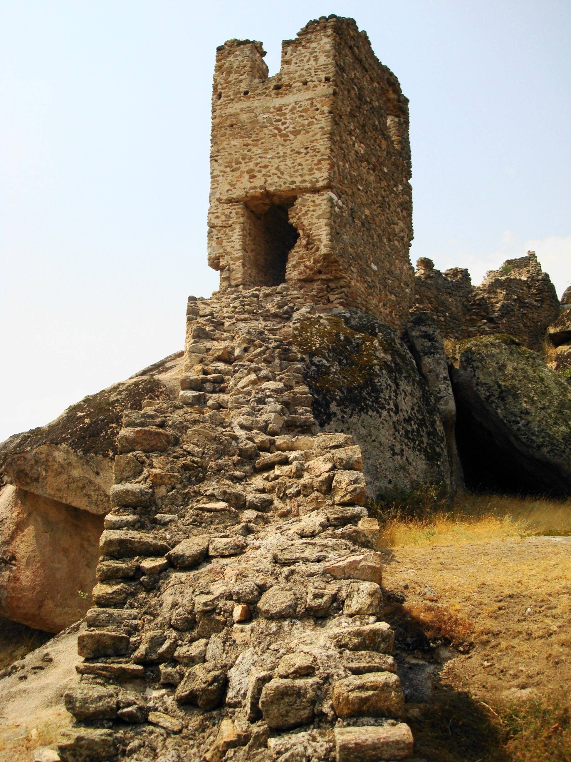 Kings Marko ruins of castle near Prilep, Macedonia.